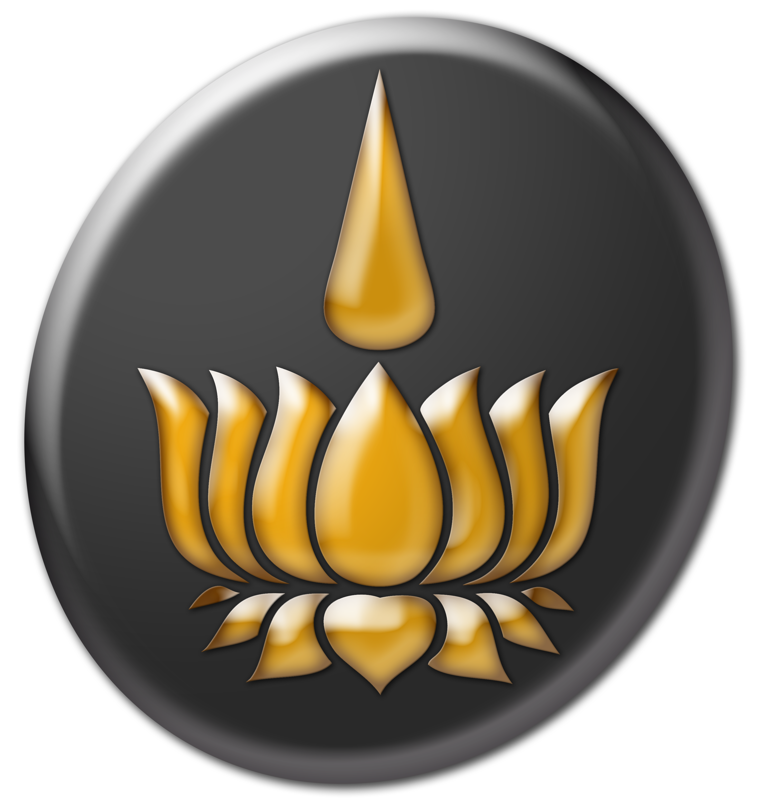 Icon of 'Lotus with Namam' the symbol of Ayyavazhi.